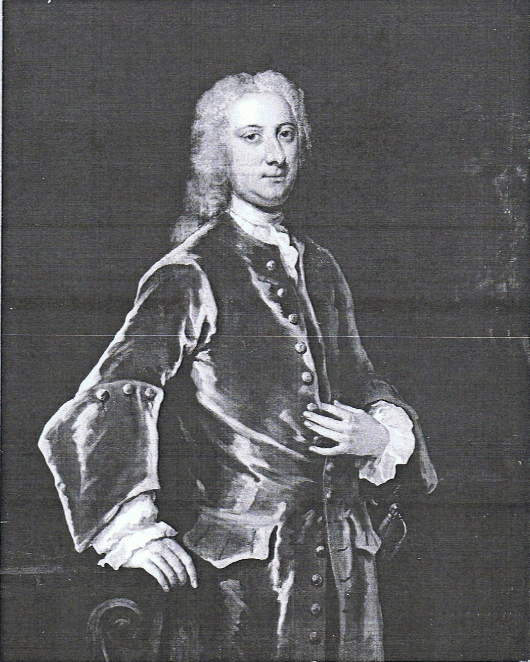 Portrait of Charles Fane, 1st Viscount Fane (1676-1744)